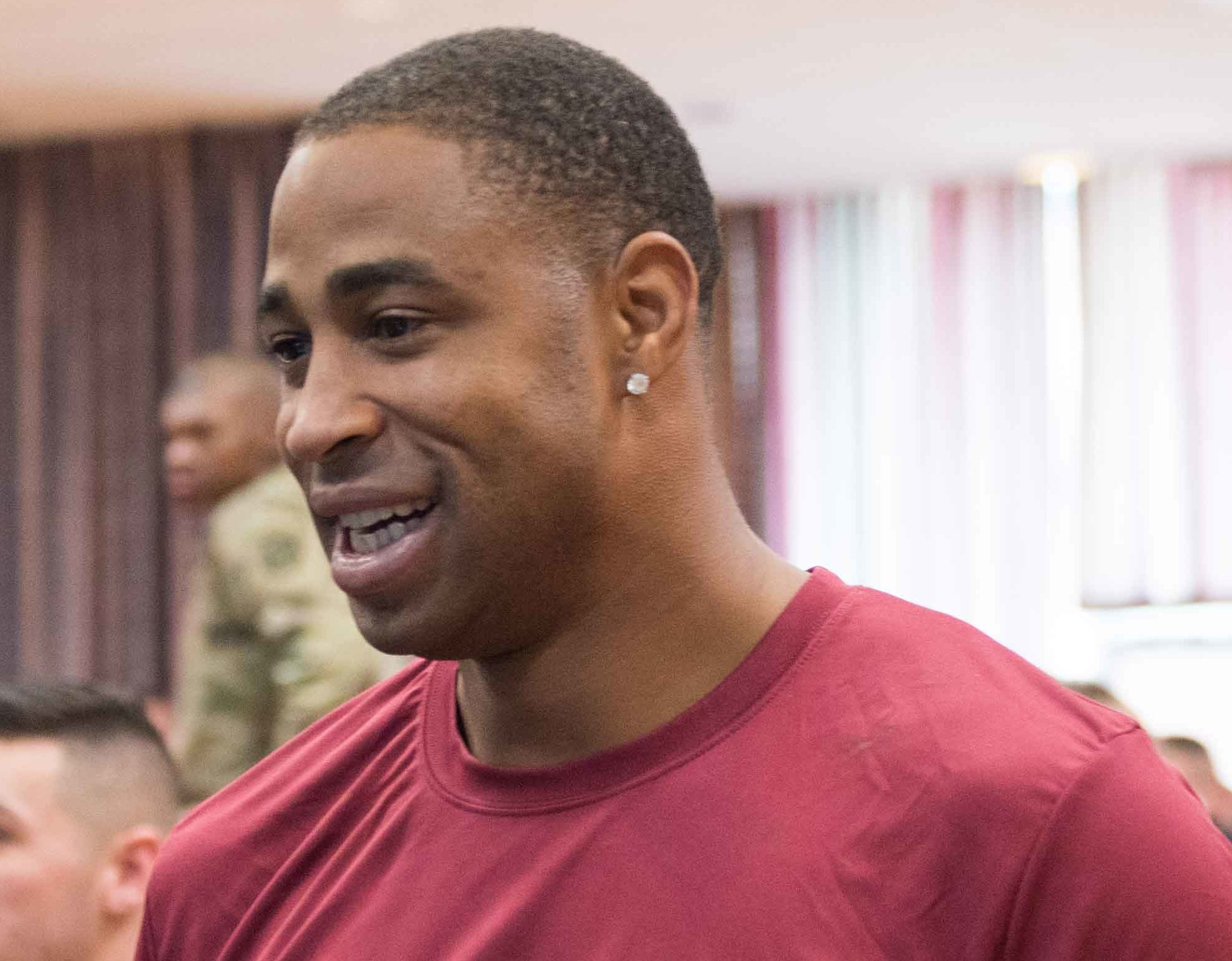 Former Redskins cornerback, Fred Smoot, participating in the “Pros vs GI Joes” event hosted by the Washington Redskins Salute on November 8, 2017.